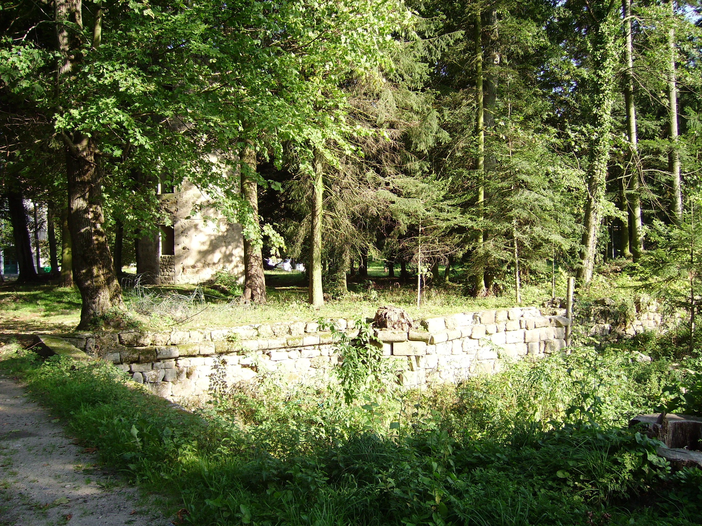 The foundations of the medieval fortress of Maubourg